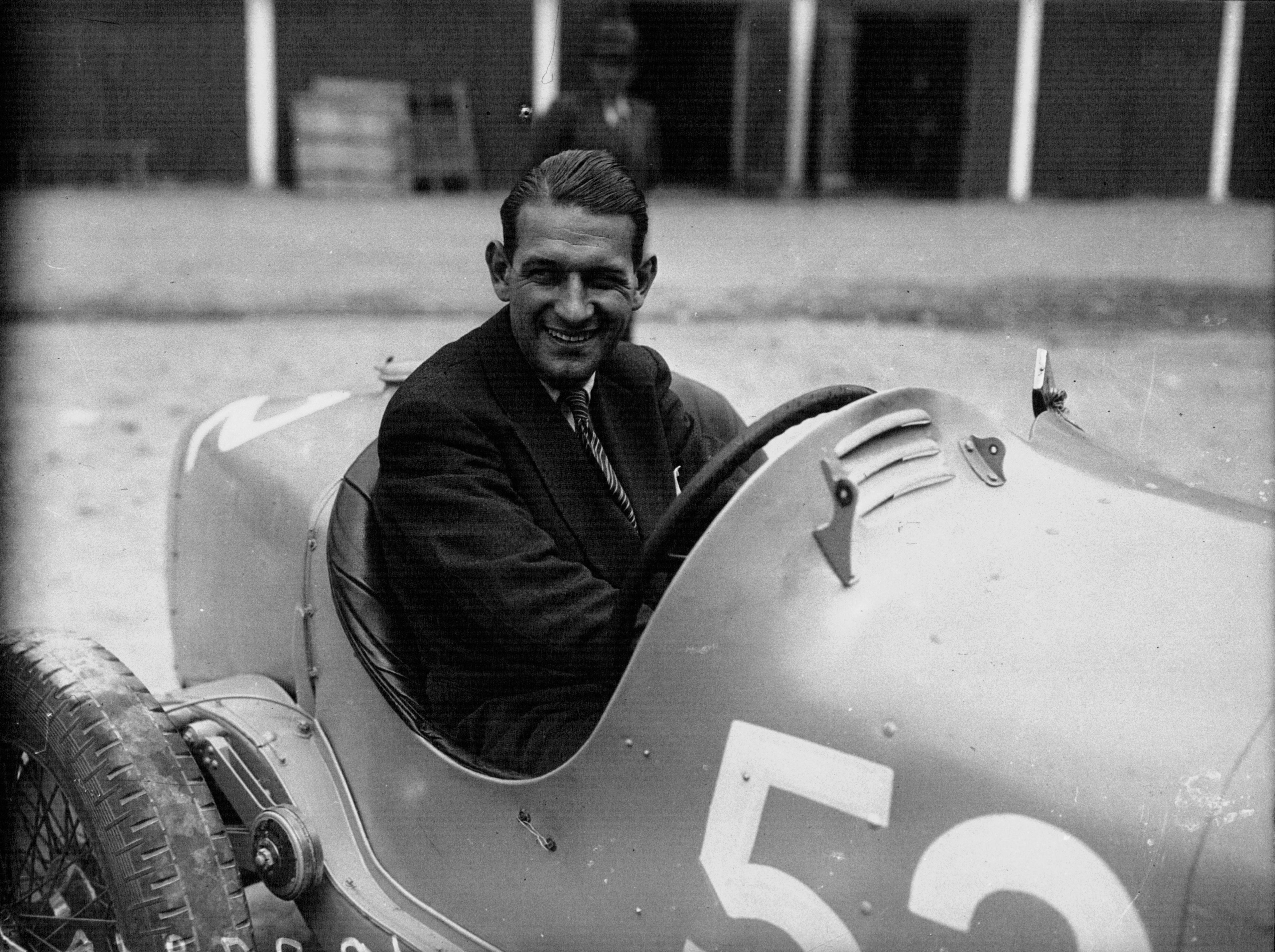 Raymond Sommer in Montlhéry with Alfa Romeo Monza 2.3